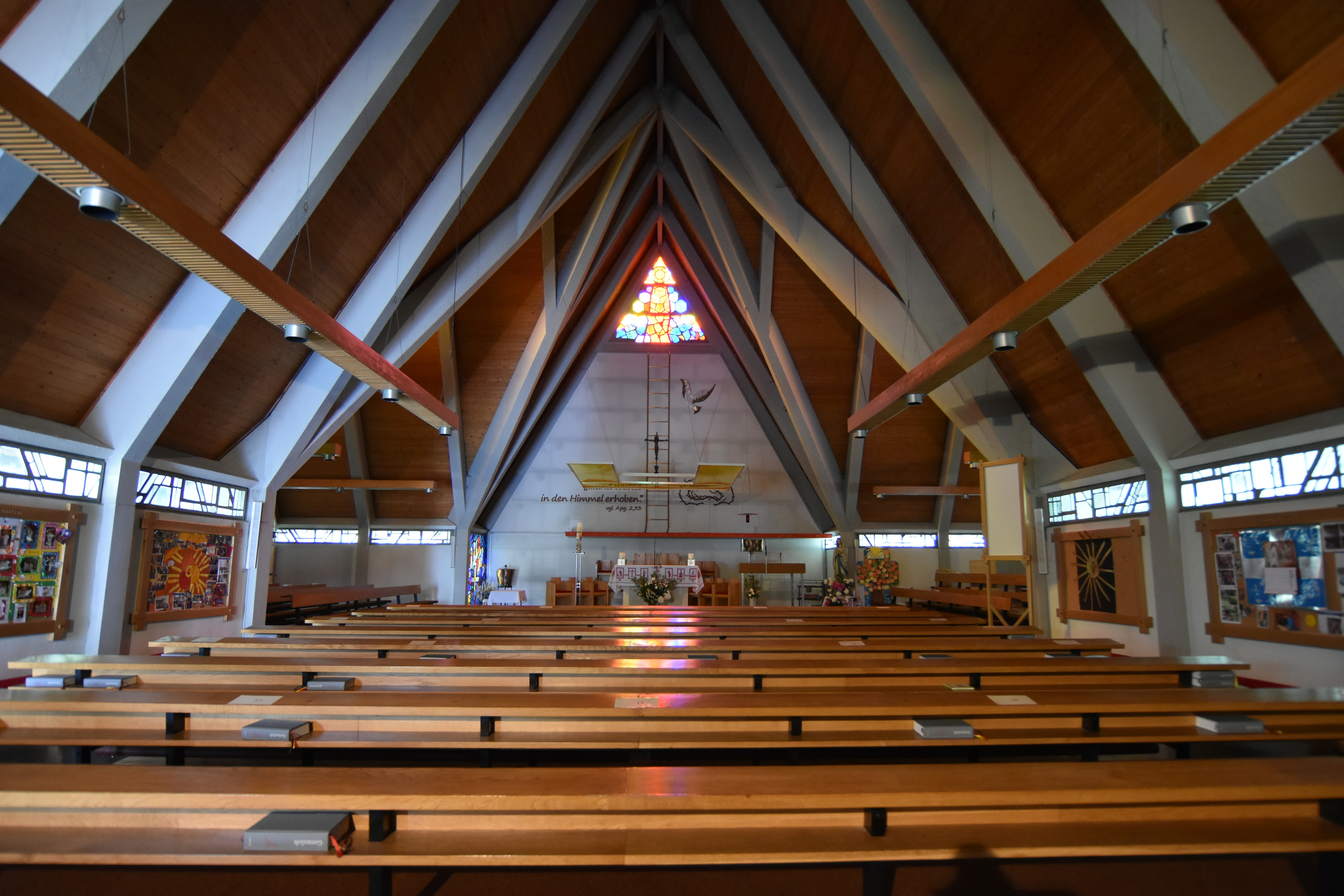 Church Filialkirche Weißenbach bei Liezen Interior